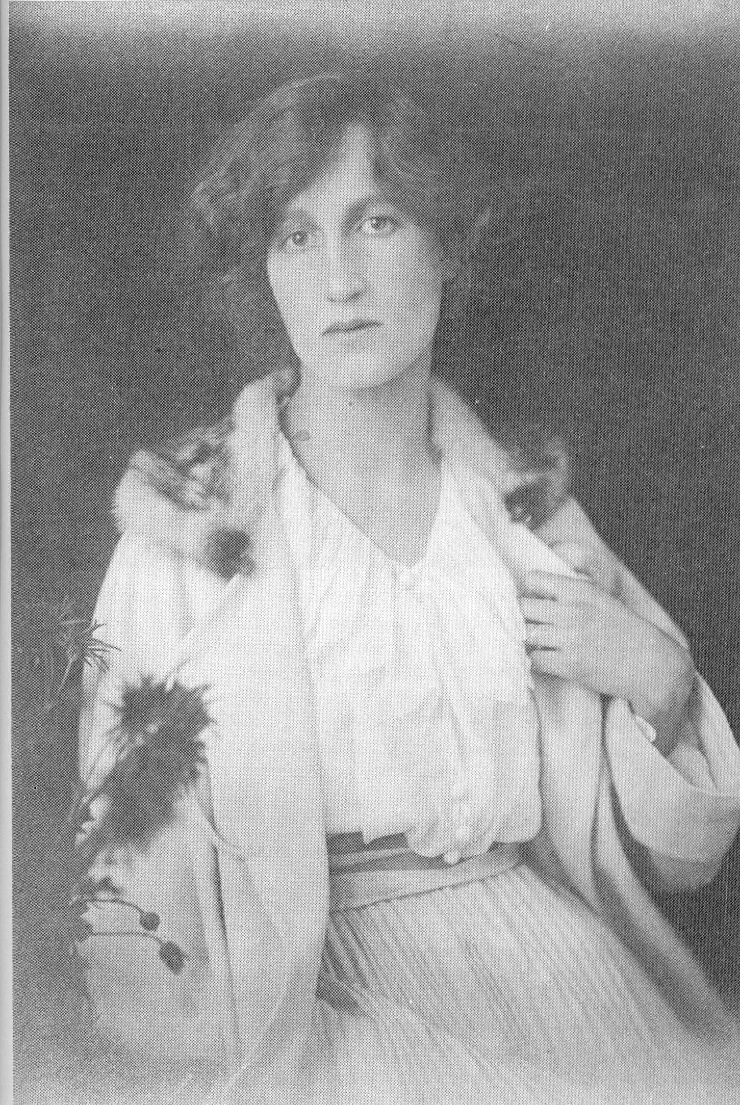 Portrait of British politican and author Violet Bonham Carter, née Asquith.